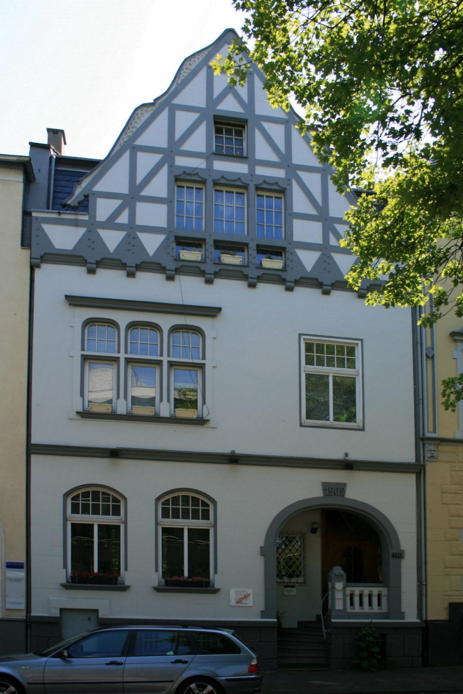 Cultural heritage monument No. H 006 in Mönchengladbach